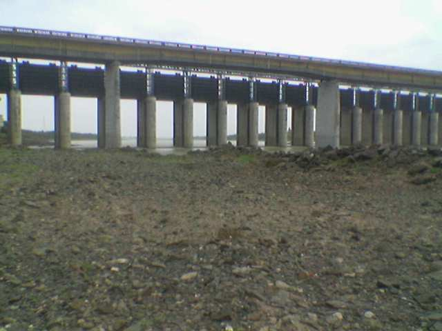 This bridge on Tapti river at Sarangkheda connect north area of Tapti river to rest of Maharashtra